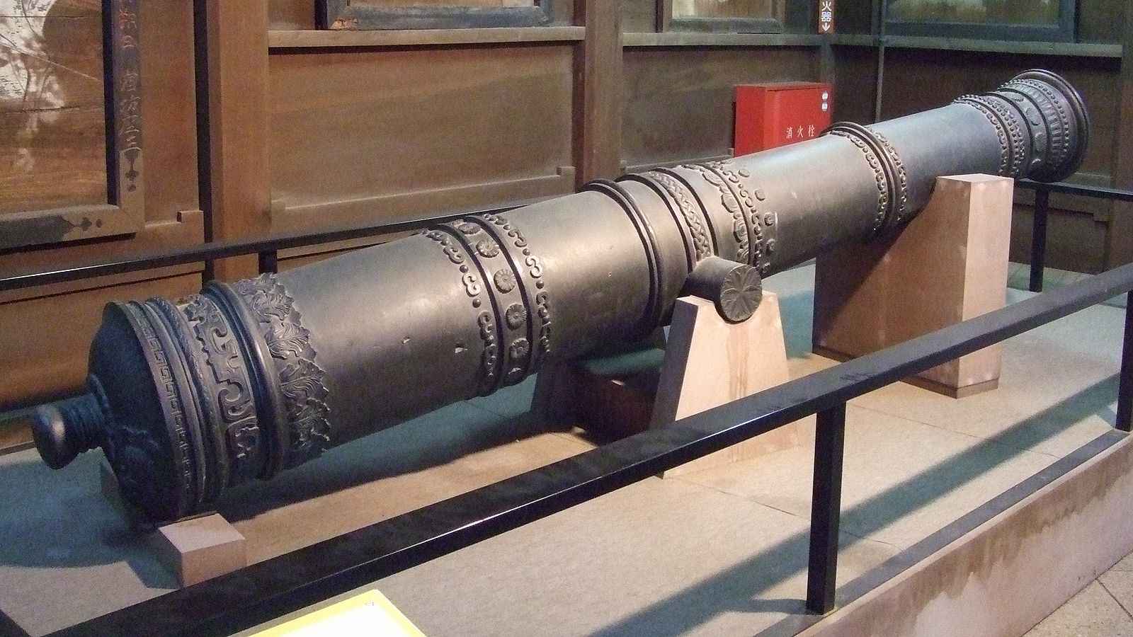 A cannon made with technical guidance by Ferdinand Verbiest(Nan Huairen), in Hakozaki Shrine, Higashi Ward, Fukuoka City, Fukuoka, Japan.